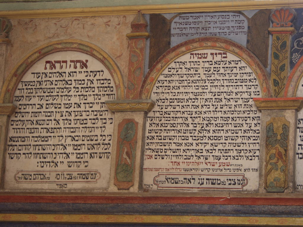 Synagogue in Łańcut